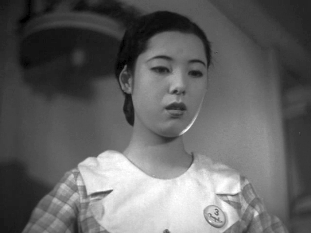 Chiyoko Katori in Kagiri naki hodo (限りなき舗道) directed by Mikio Naruse - 1934